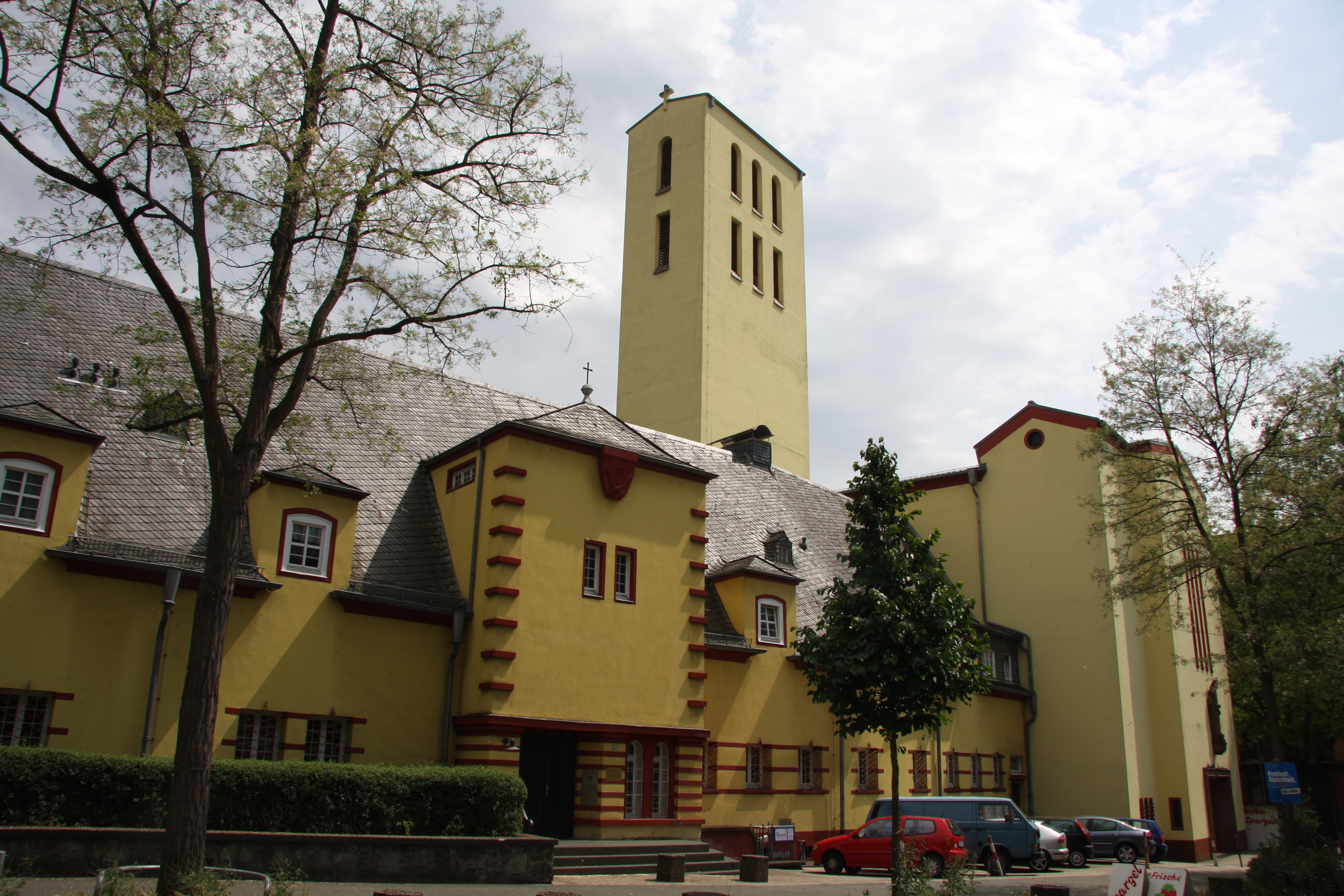 Church of the Holy Elizabeth in Wiesbaden